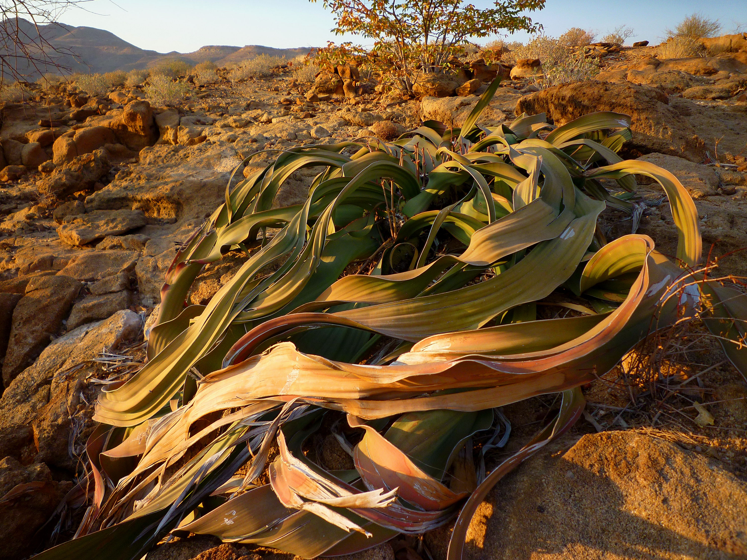 A Welwitschia at the petrified forest, some 40 kilometres west of the town of Khorixas, on the C39 road, Namibia